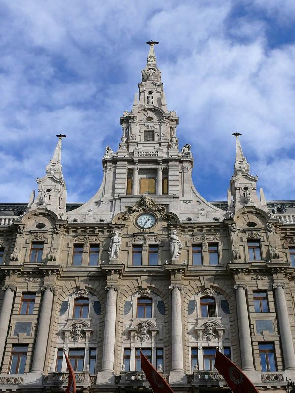 The New York Palace in Budapest